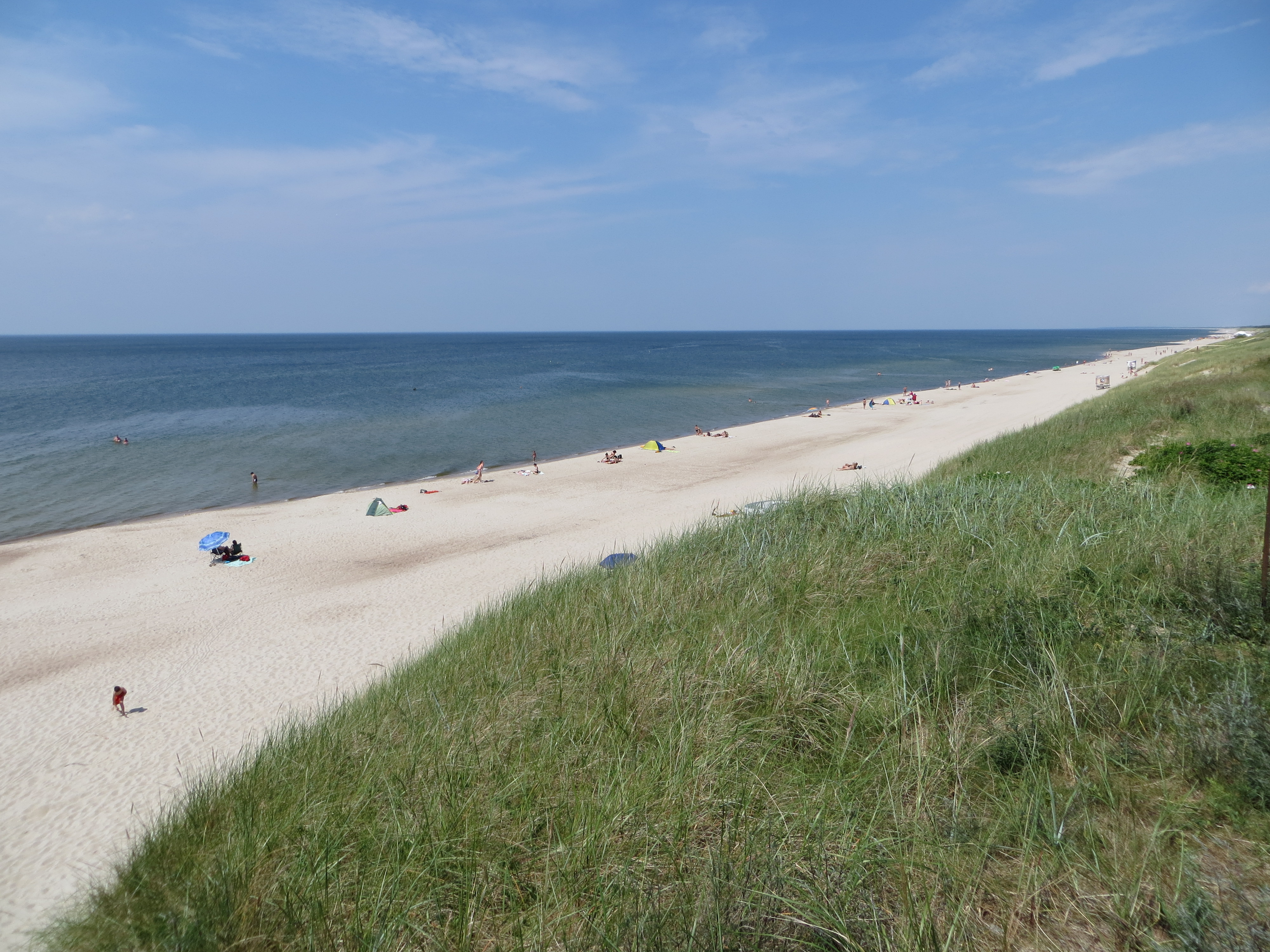 The western side of the 98 km long Curonian Spit, facing the Baltic sea, is lined with long white beaches that more often than not have impressively tall sand dunes in the back - some of them 40 to 50 meters high - such as this one near Nida in Neringa, Lithuania.